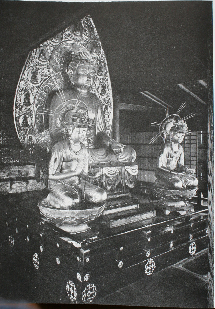 Amidaba Triad, Wood, gold leaf over lacquer , 233 cm (Amida), 131.8 cm (Kannon) and 130.9 cm (Seishi) ,ACE1148, OOHARA SANZENIN, Kyoto, Japan